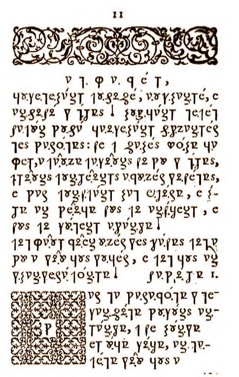 La Declaration des Abus que l’on commet en escrivant Et le moyen de les euiter, & de représenter nayuement les paroles: ce que iamais homme n’a faict